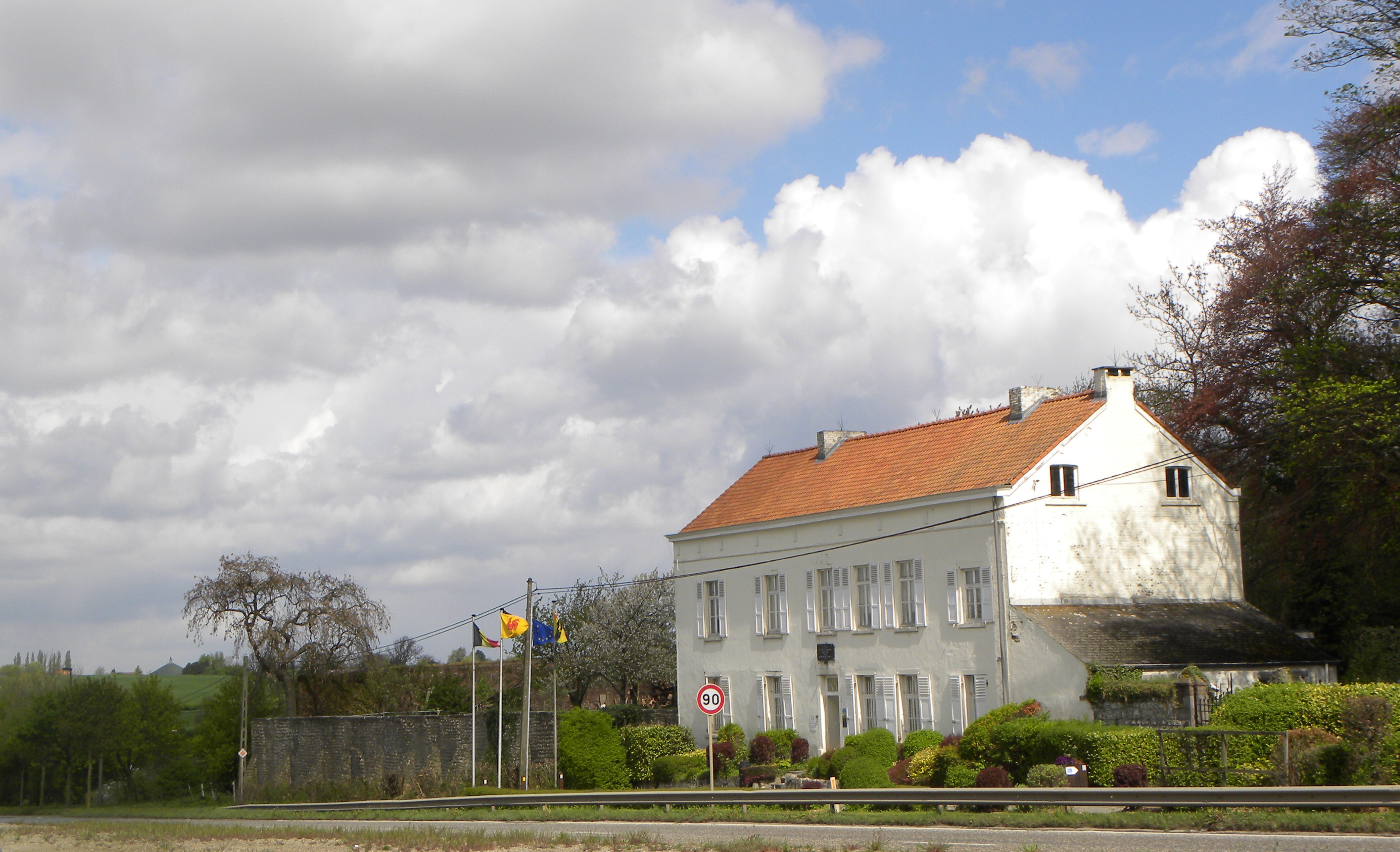 Waterloo, Belgium, Napoleon last HQ aka "Musée du Caillou" with view onto the Lion (left side, horizon line)